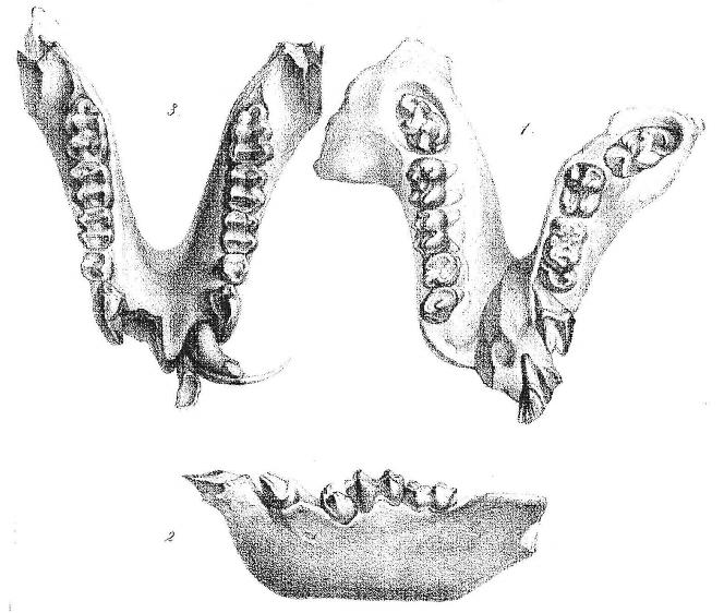 The type specimens of Oreopithecus bambolii, Gervais 1872, from Montebamboli. * 1 .- IG 4335